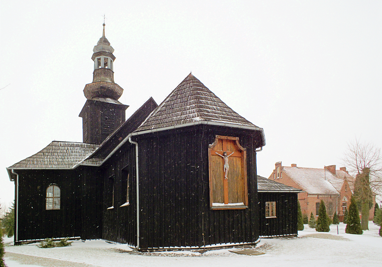 Sokolniki, parish church & presbytery; Poland, gm. Mieleszyn